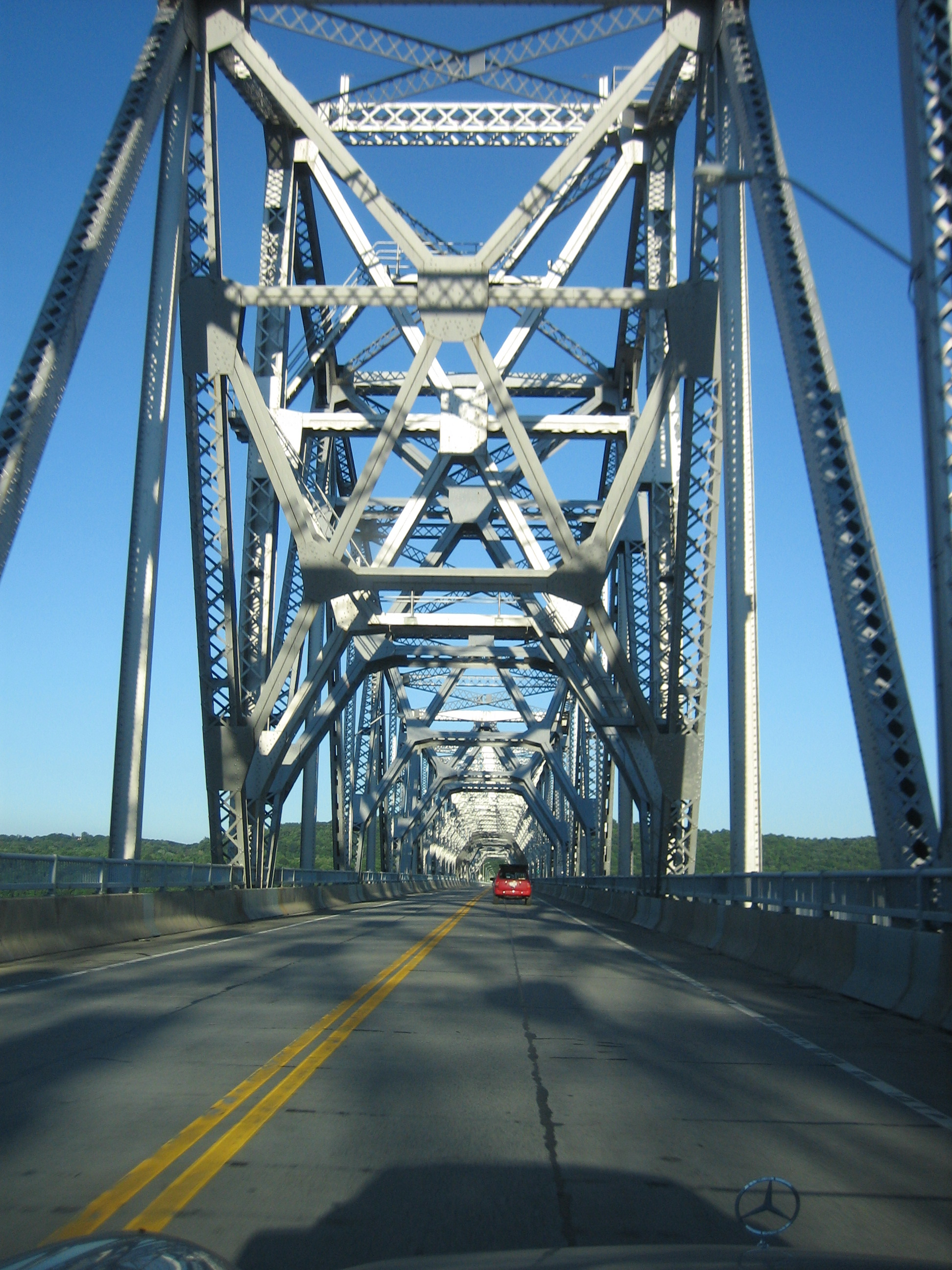 Crossing the Rip Van Winkle Bridge eastbound in upstate New York. Detail of the truss work.